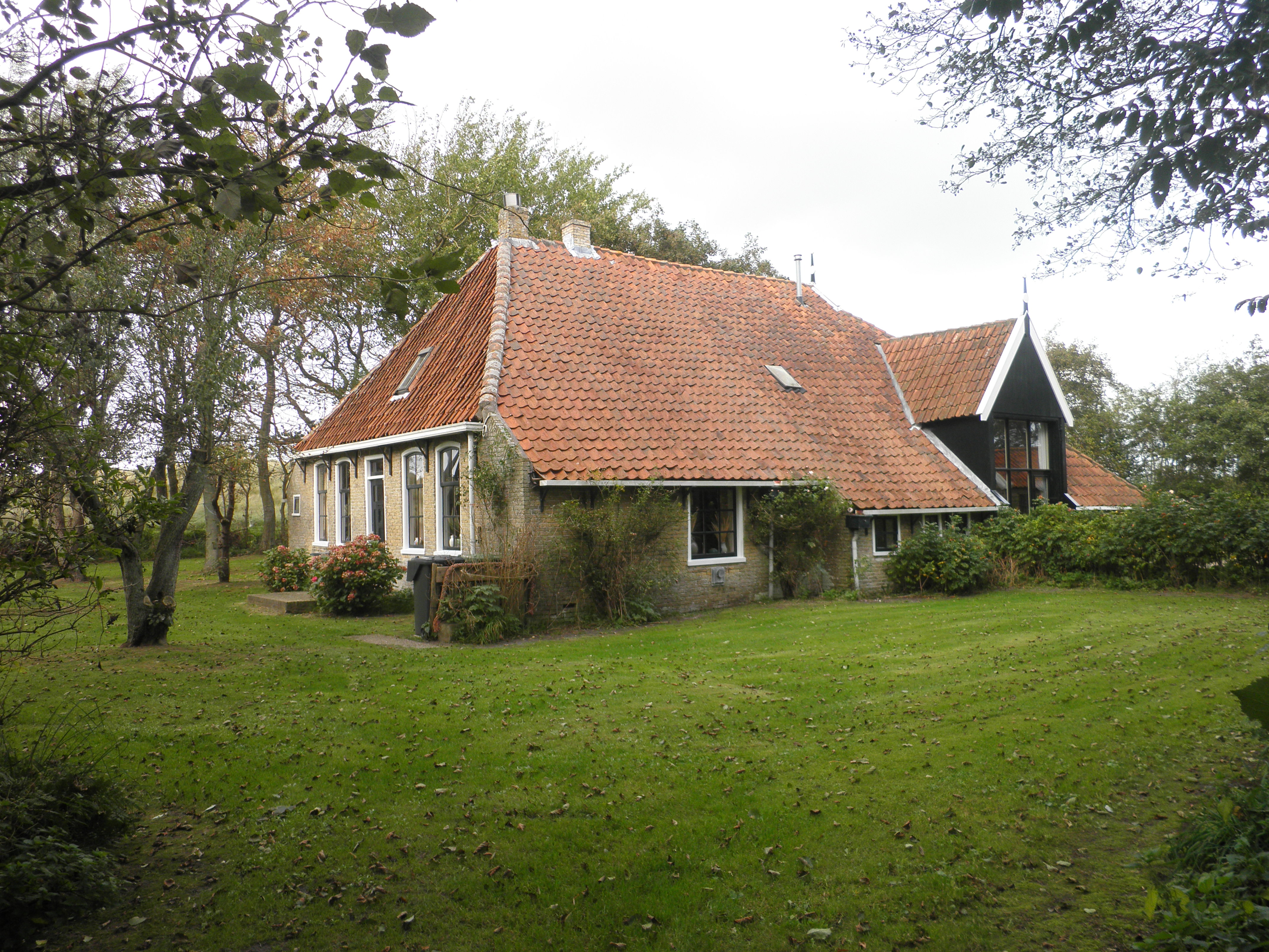 Gulf house in 1896 in Oosterend on the island of Terschelling in the Netherlands, with a central corridor and rooms on eiter side, both with low sidewalls.